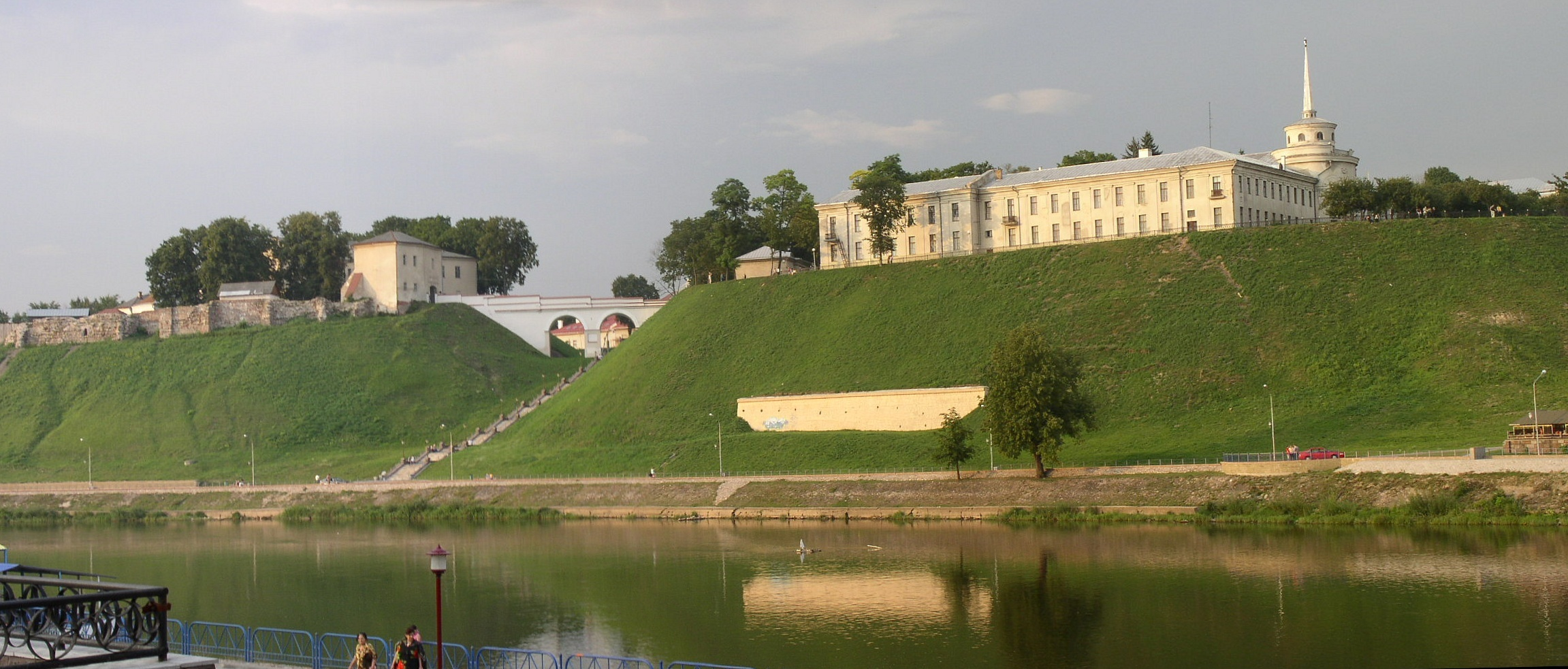 New and old castles. Hrodna, Belarus.